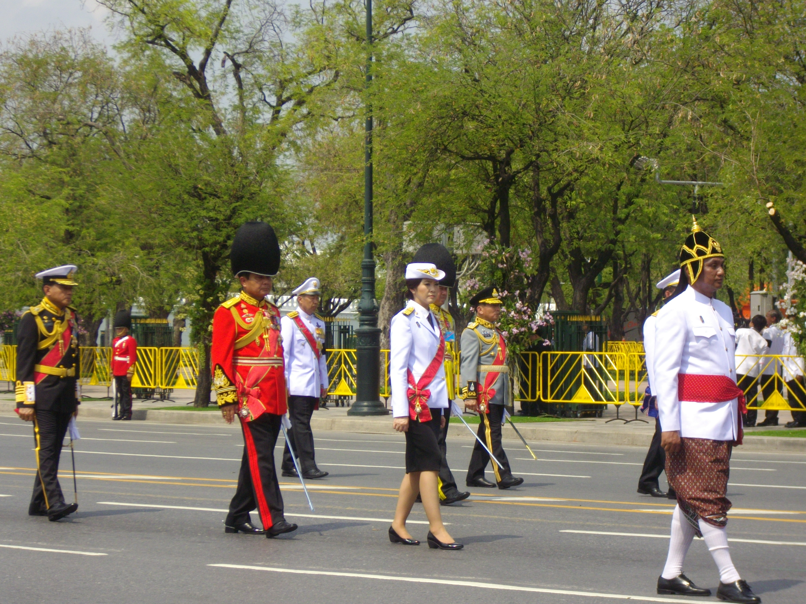 General Prayuth Chan-ocha, Commander-in-Chief of the Royal Thai Army, and Yingluck Shinawatra, Prime Minister, walked in slow march along the song "Phaya Sok" (Peers' Elegy) whilst escorting the urn of Princess Bejaratana Rajasuda, carried by Phra Maha Phichai Ratcha Rot (the Great Chariot of Victory), from Wat Phra Chettuphon Wimon Mangkhlaram Ratcha Wara Maha Wihan to the ground of Sanam Luang on April 9, 2012.